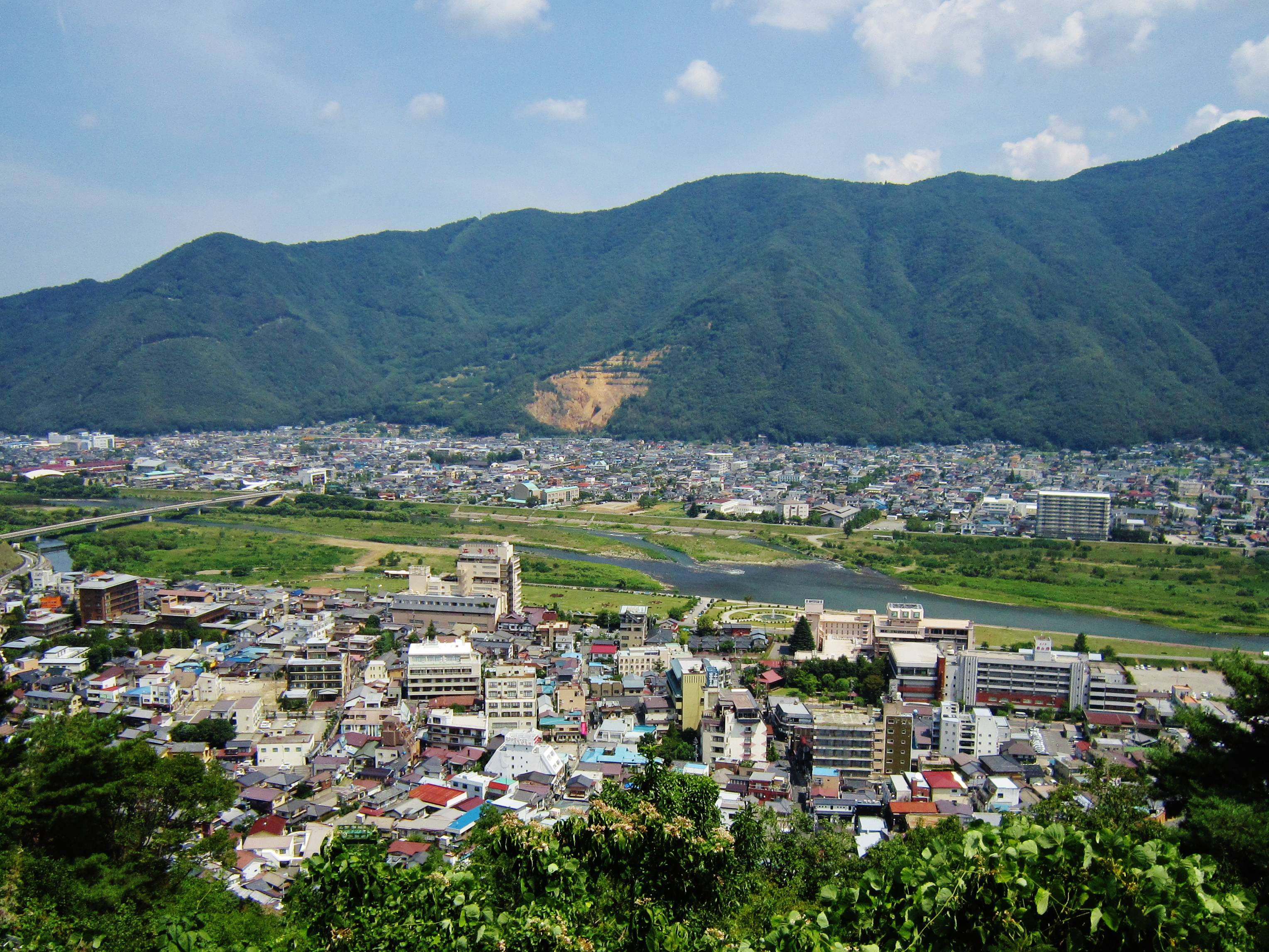 Togura-Kamiyamada Onsen.